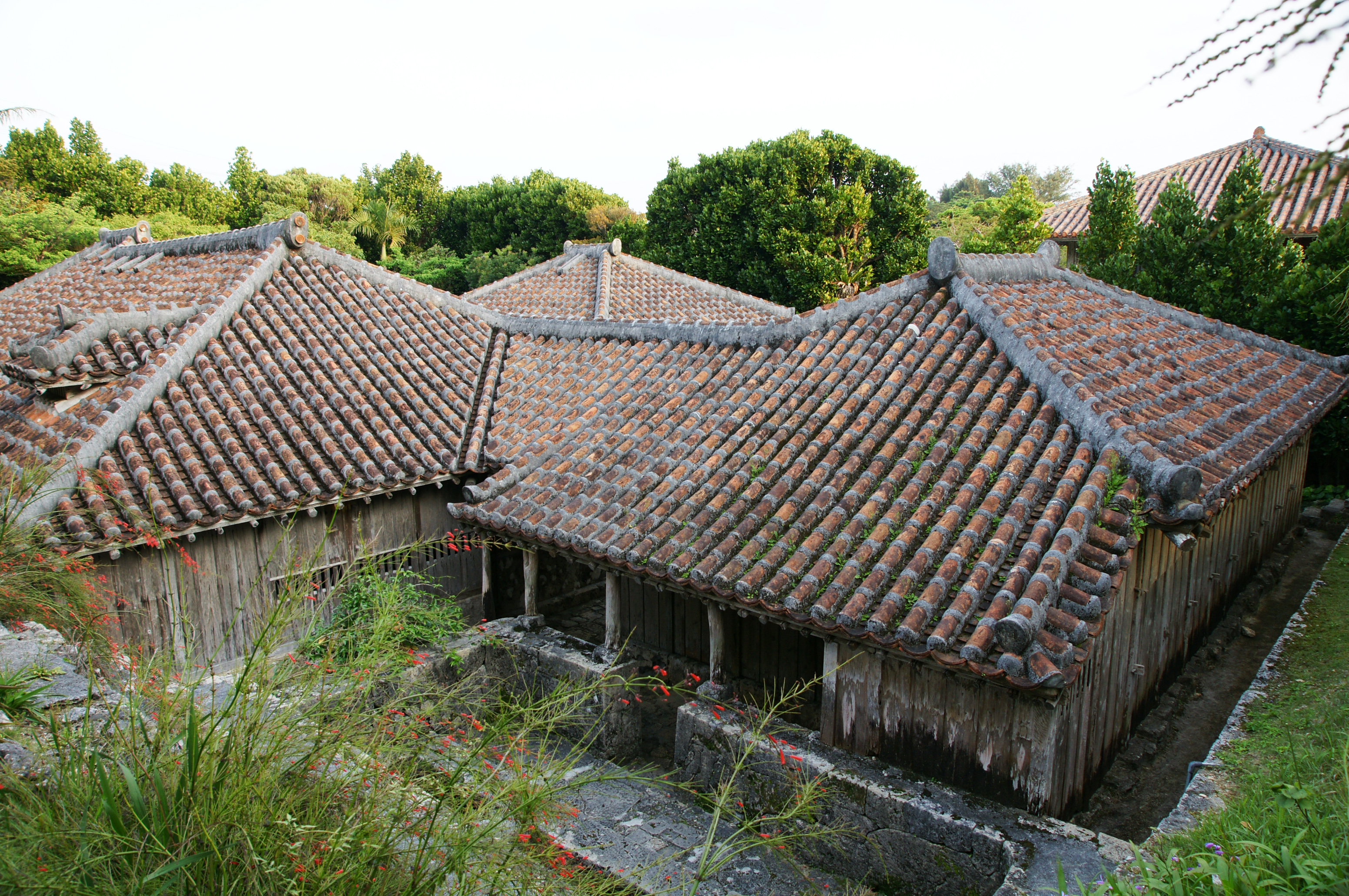 Nakamura House in Kitanakagusuku, Okinawa prefecture, Japan.